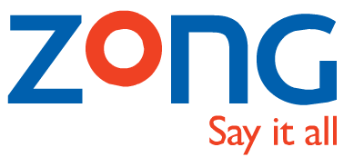 The Logo of ZONG Cellular Company